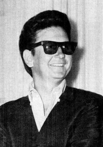 Trade ad for Roy Orbison's single "Ride Away'".